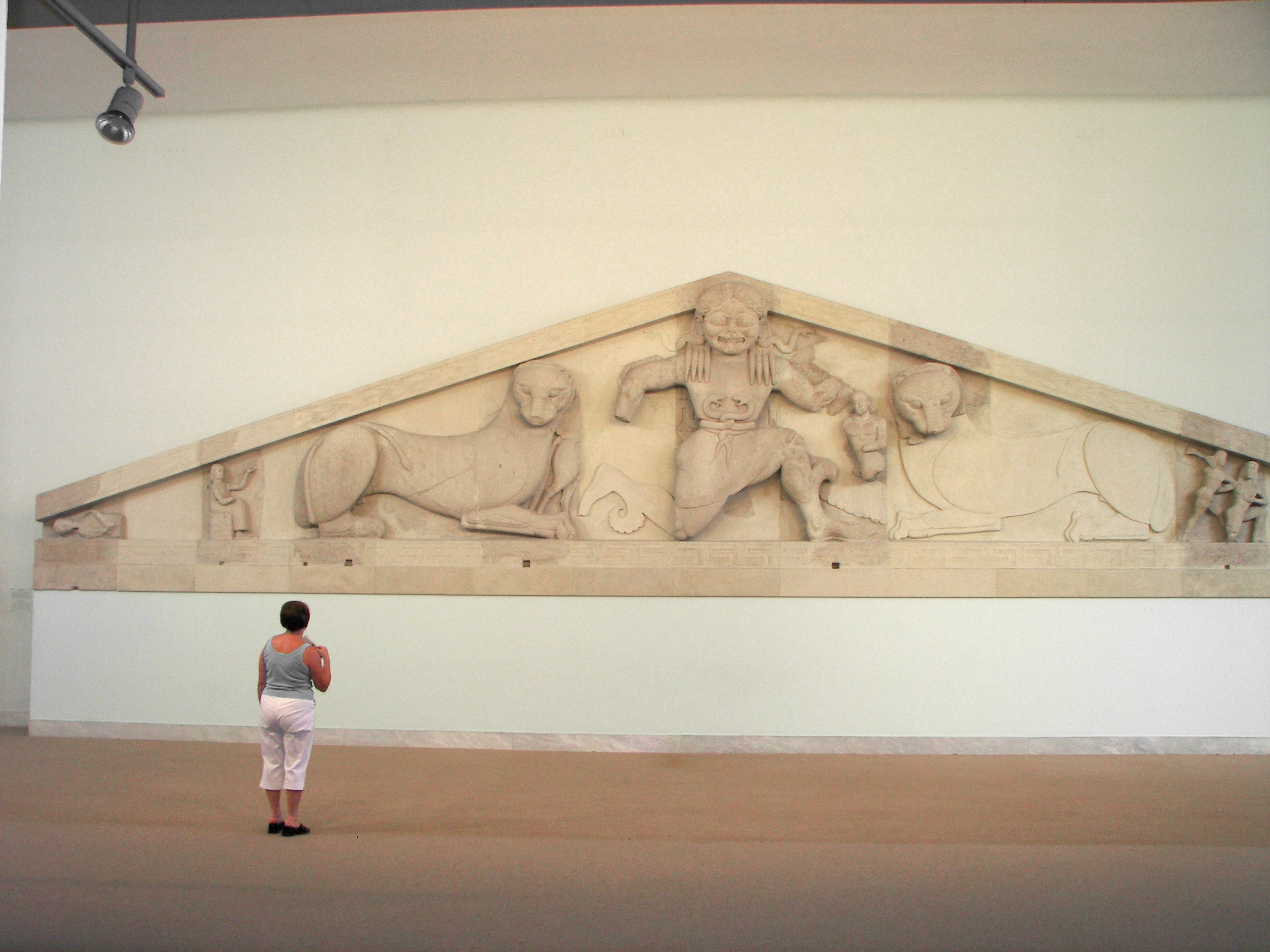 I am the creator.Dr.K. 03:23, 2 January 2007 (UTC)